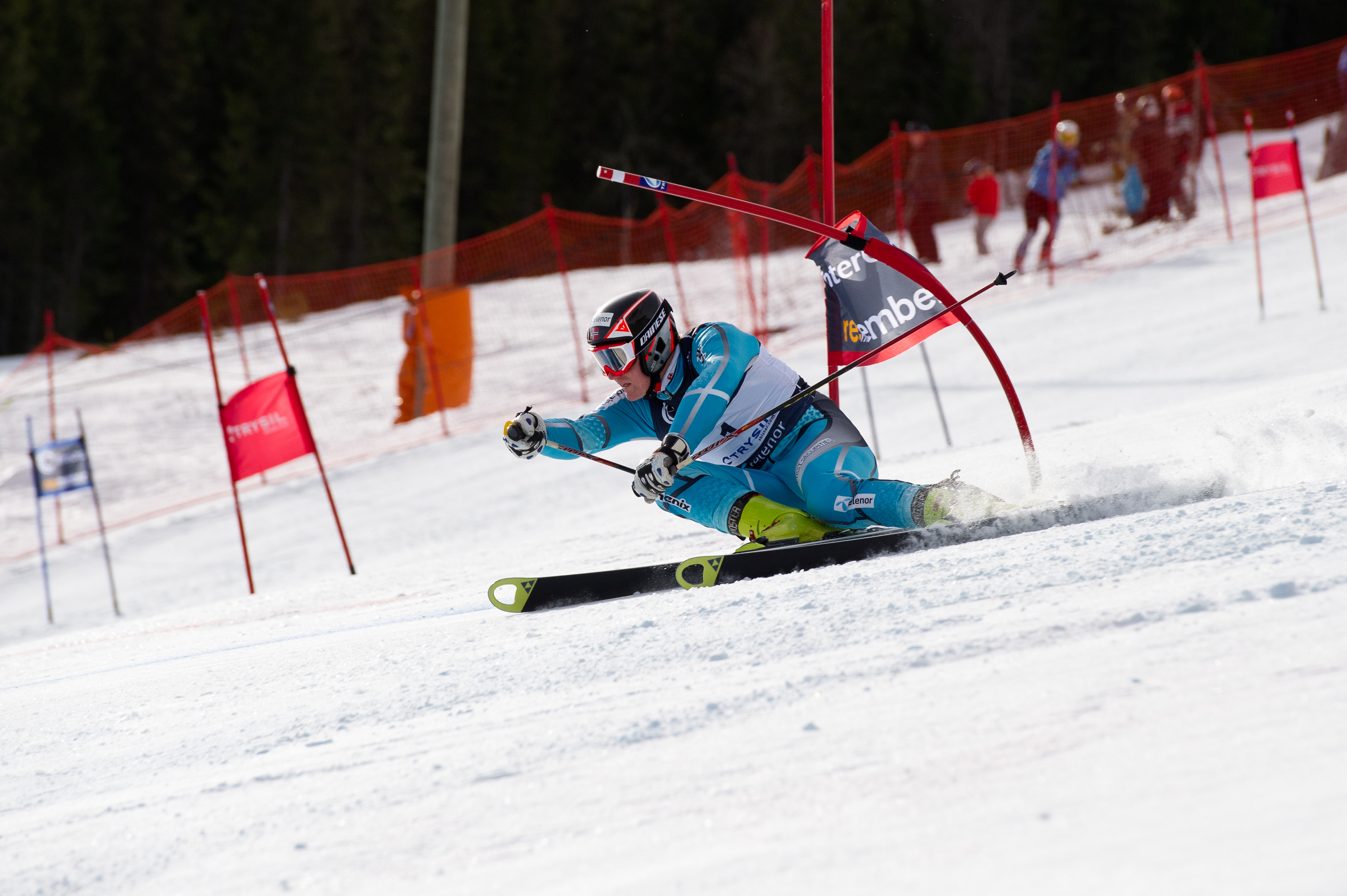 Iver Bjerkestrand competes in the 2011 men's giant slalom event at Trysil during the 2011 national championships in Norway. photo © Ola Matsson